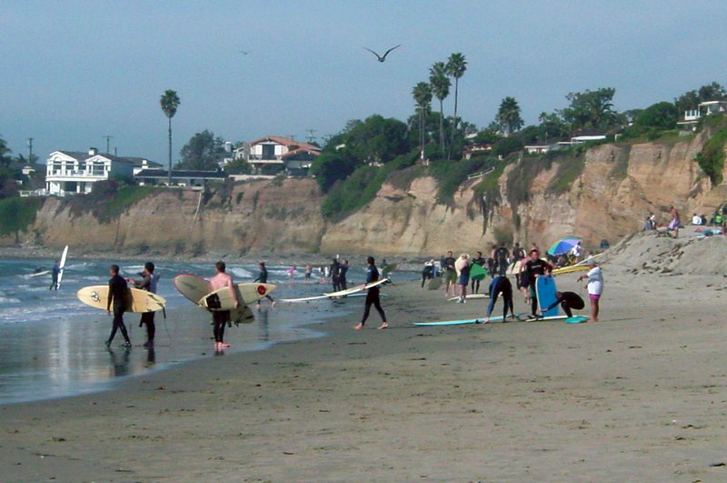 Pacific Beach, San Diego, California